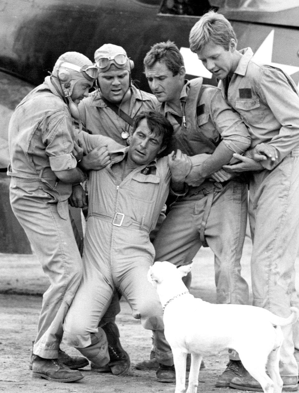 Scene from the television series Baa Baa Black Sheep. Pappy (Robert Conrad) is taken ill just before an important mission. Also pictured, left to right: Jeff McKay (French), Dirk Blocker (Bragg), James Whitmore, Jr. (Gutterman), Bob Ginty (T. J.) and Boyington's bull terrier, Meatball.